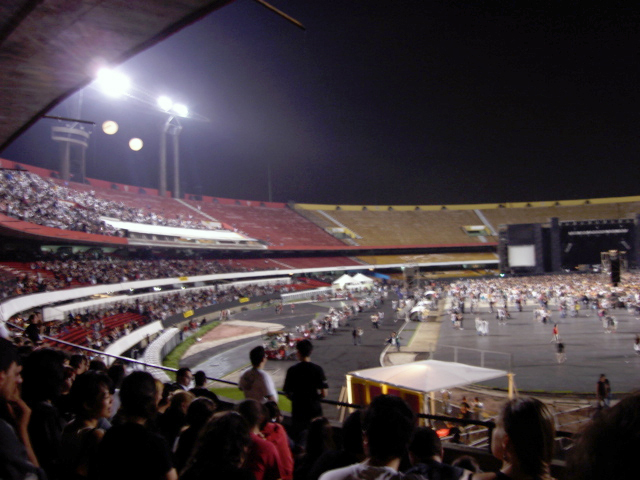 show of Aerosmith in Cícero Pompeu de Toledo stadium, known as Morumbi, for the World Tour.